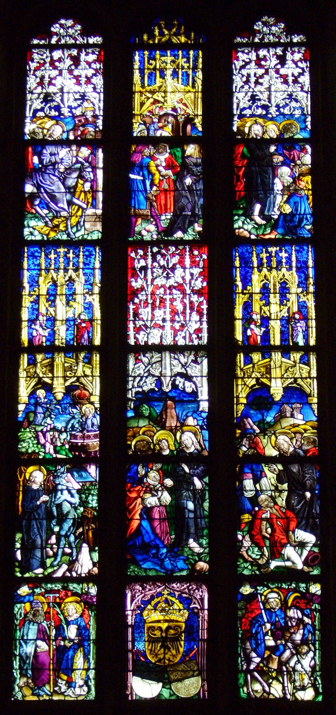 The Lutheran cathedral "Ulm Münster" of Ulm/Germany,coloured windows above the altar